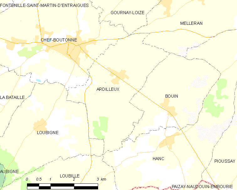 Map of French municipality Ardilleux